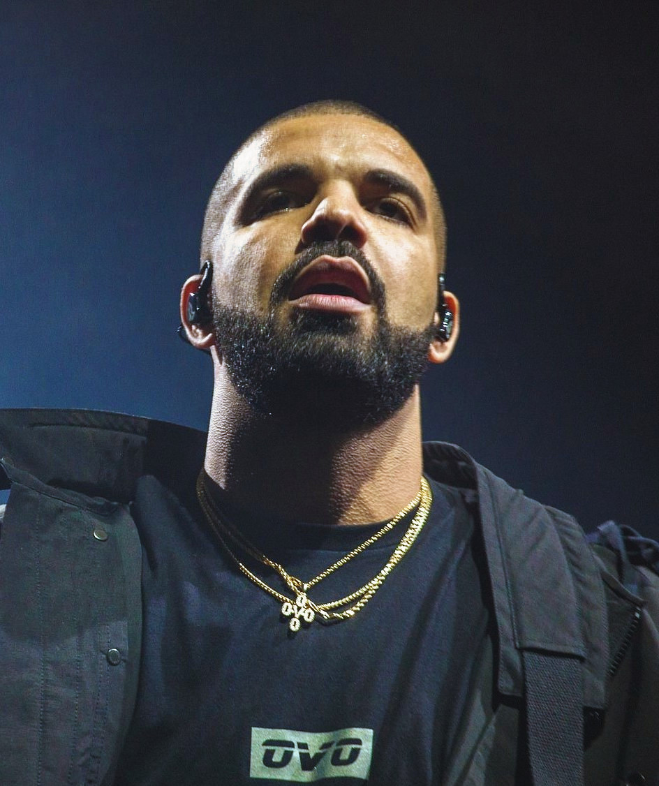 Summer Sixteen Tour 2016 in Toronto.